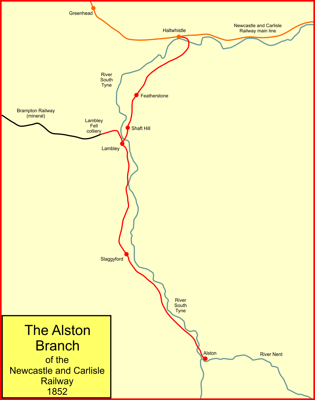 System map of the Alston branch of the Newcastle and Carlisle Railway, Northern England, 1852